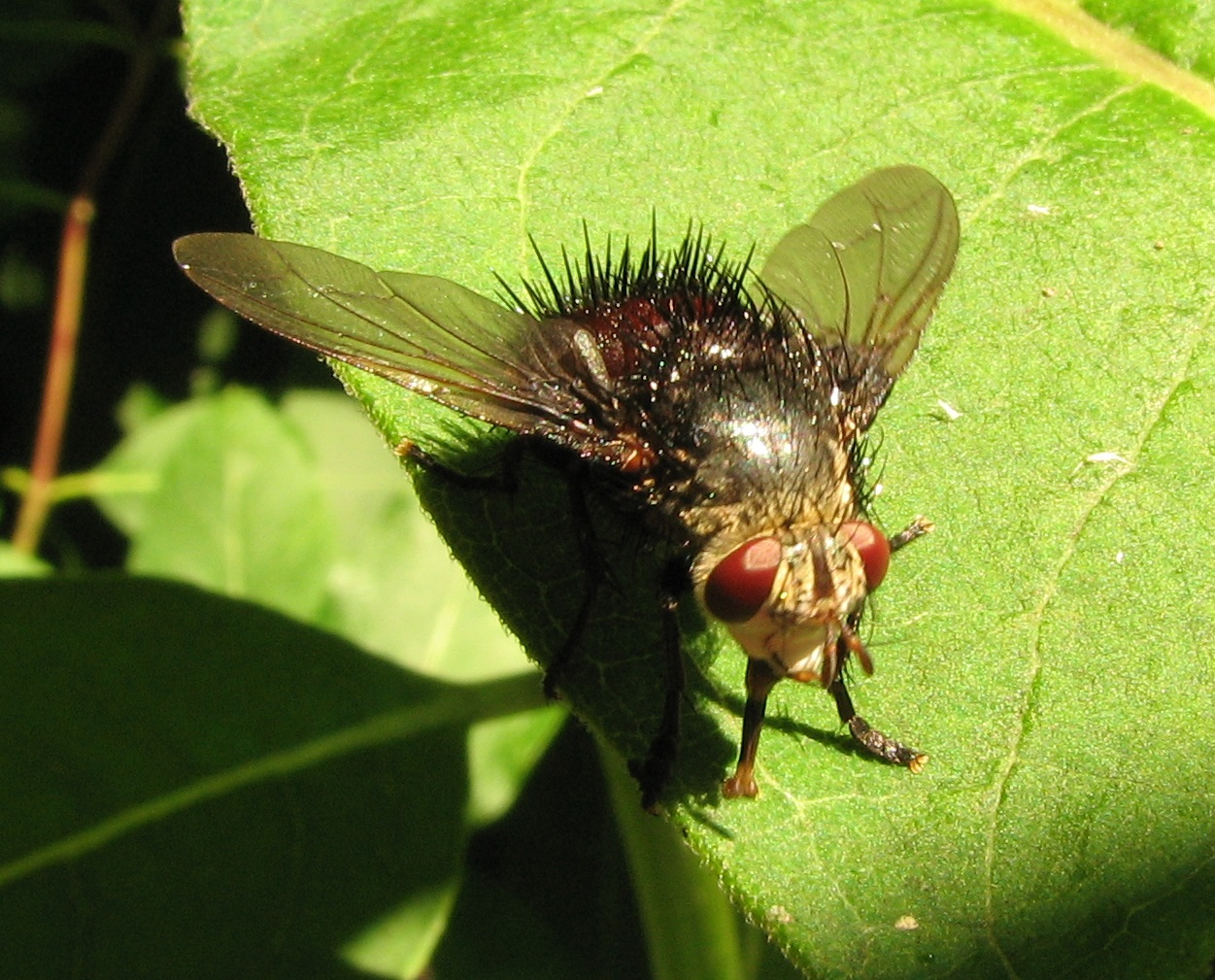 Female tachinid fly, Juriniopsis adusta, on common milkweed. Churchville Nature Center, Bucks County, Pennsylvania, USA.